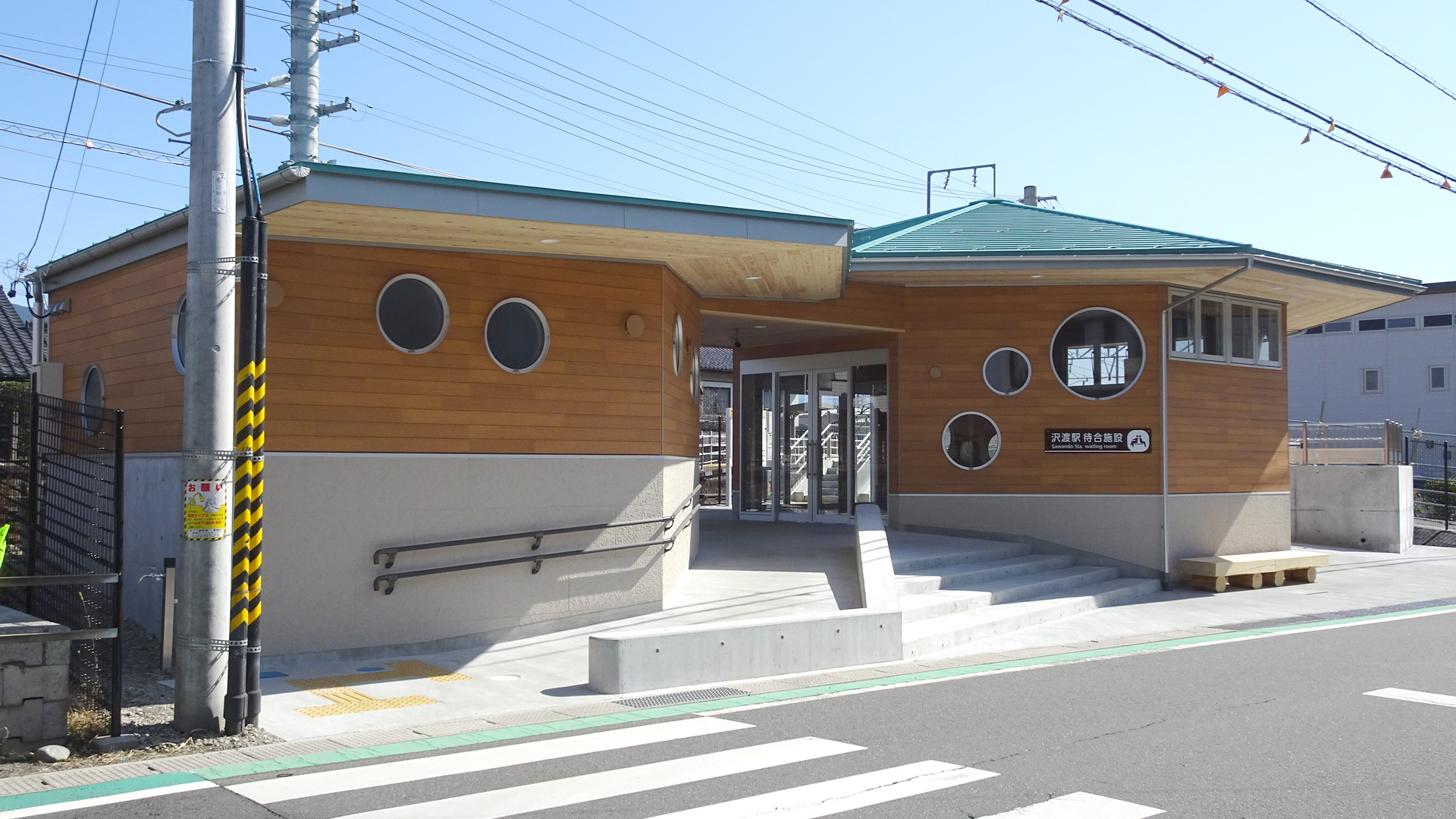 JR Iida Line Sawando Station Waiting Facility